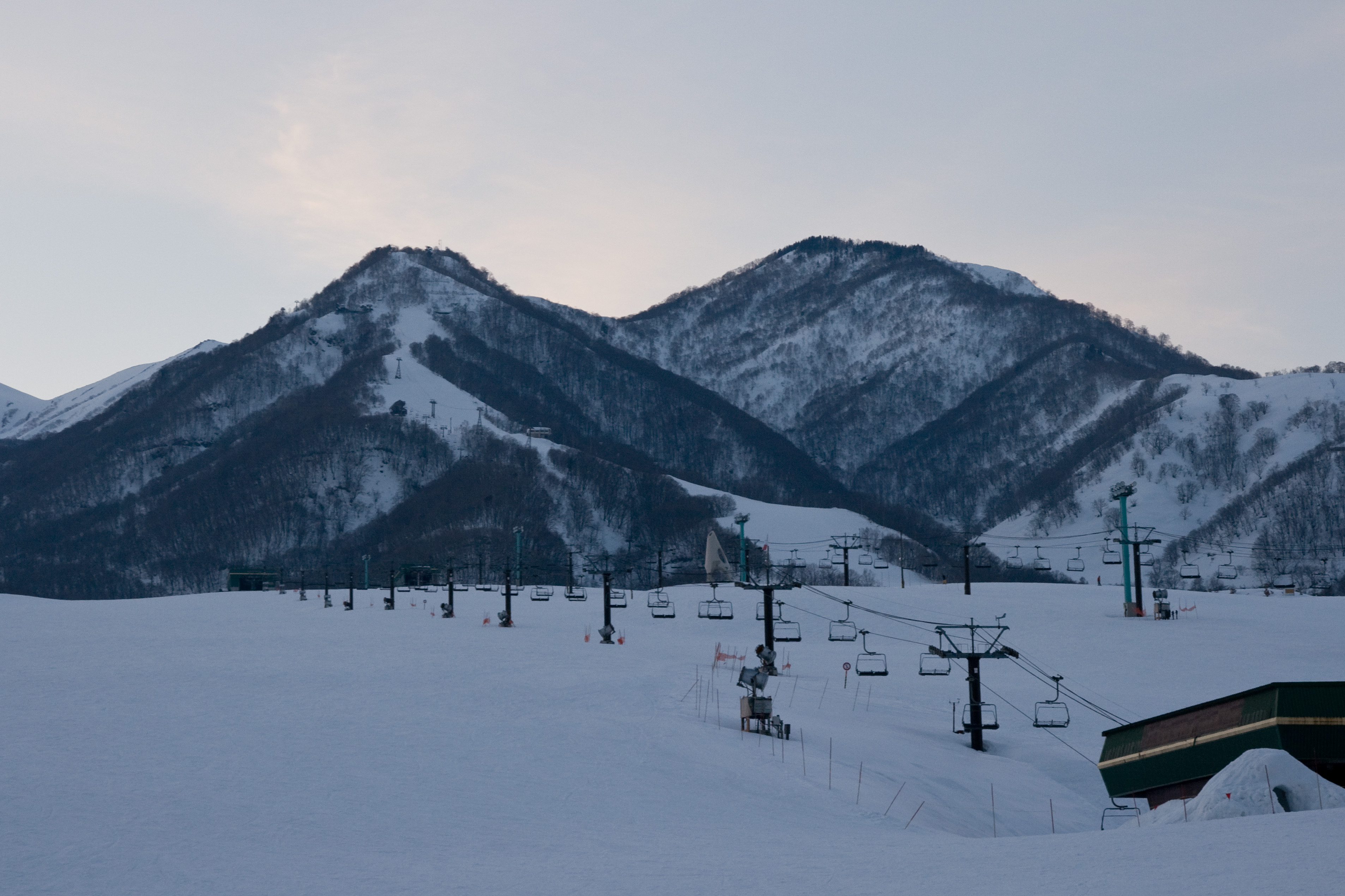 Tsugaike-Kōgen Snow Resort (栂池高原スキー場) in Otari Vill, Nagano Pref, Japan.